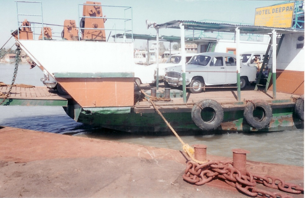 Own photographFerry crosiing at Namkhana